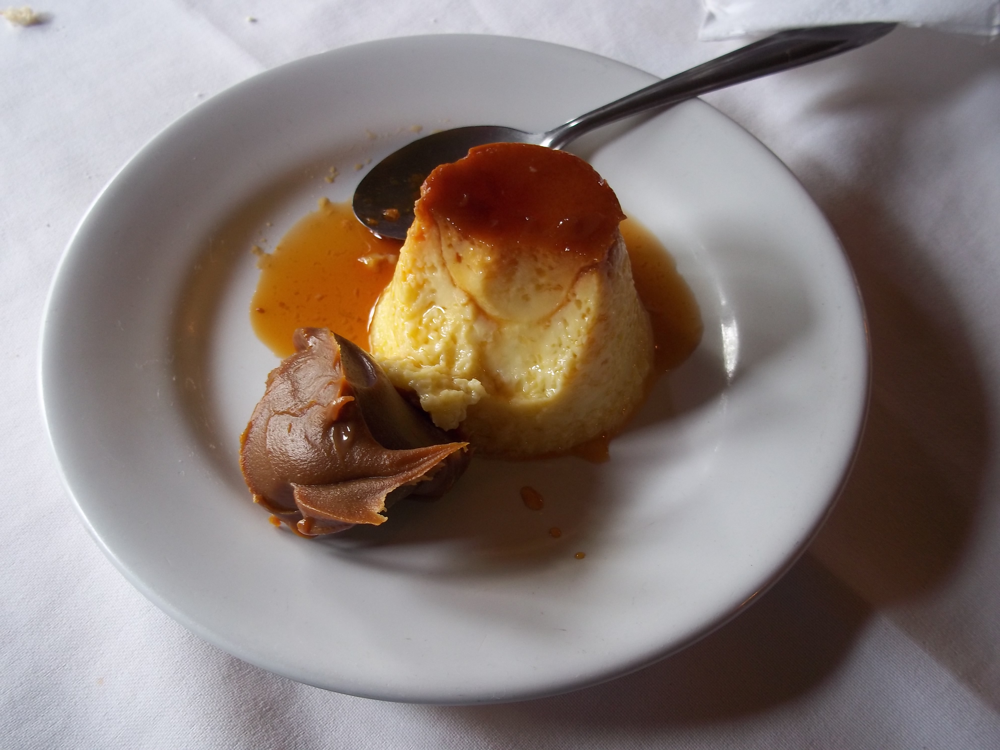 Home-made pudding with a sweet marmelade made with milk named "dulce de leche" ("sweet of milk")